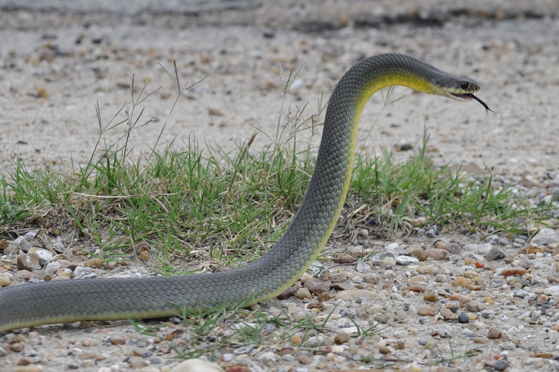 An eastern yellow-bellied racer (Coluber constrictor flaviventris) in Texas.